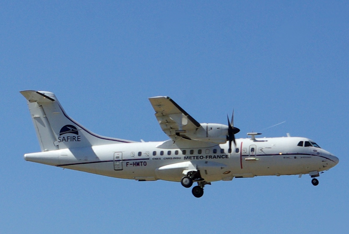 The ATR 42 of the SAFIRE on display at the AirExpo airshow on Muret-Lherm airfield on may 28th 2011.